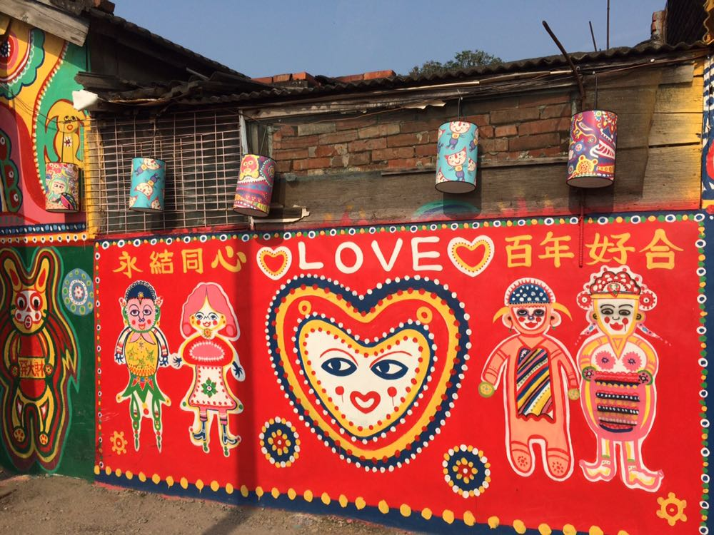 Militärsiedlung Caihong